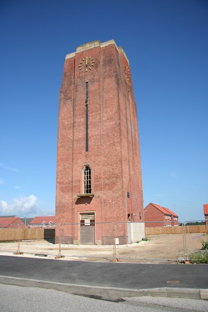 Water Tower The old water tower to Balderton Hospital, now the centrepiece of Fernwood village that has grown up on the site, likely to be developed as a bar / restaurant as the community grows